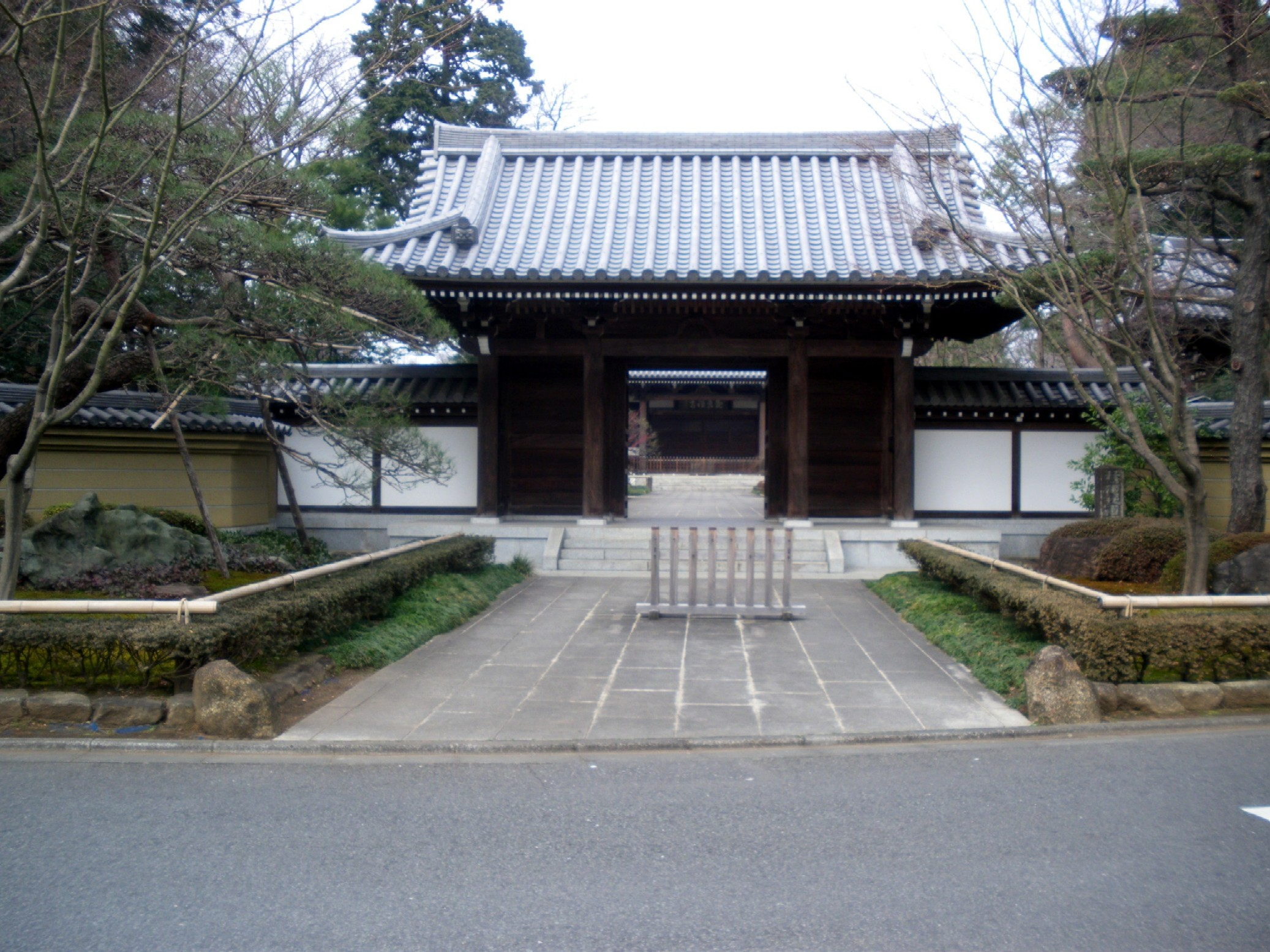 A photo of Kansenji temple,Imagawa,Suginami-ku,Tokyo,Japan.this temple is famous for the family temple of Imagawas.